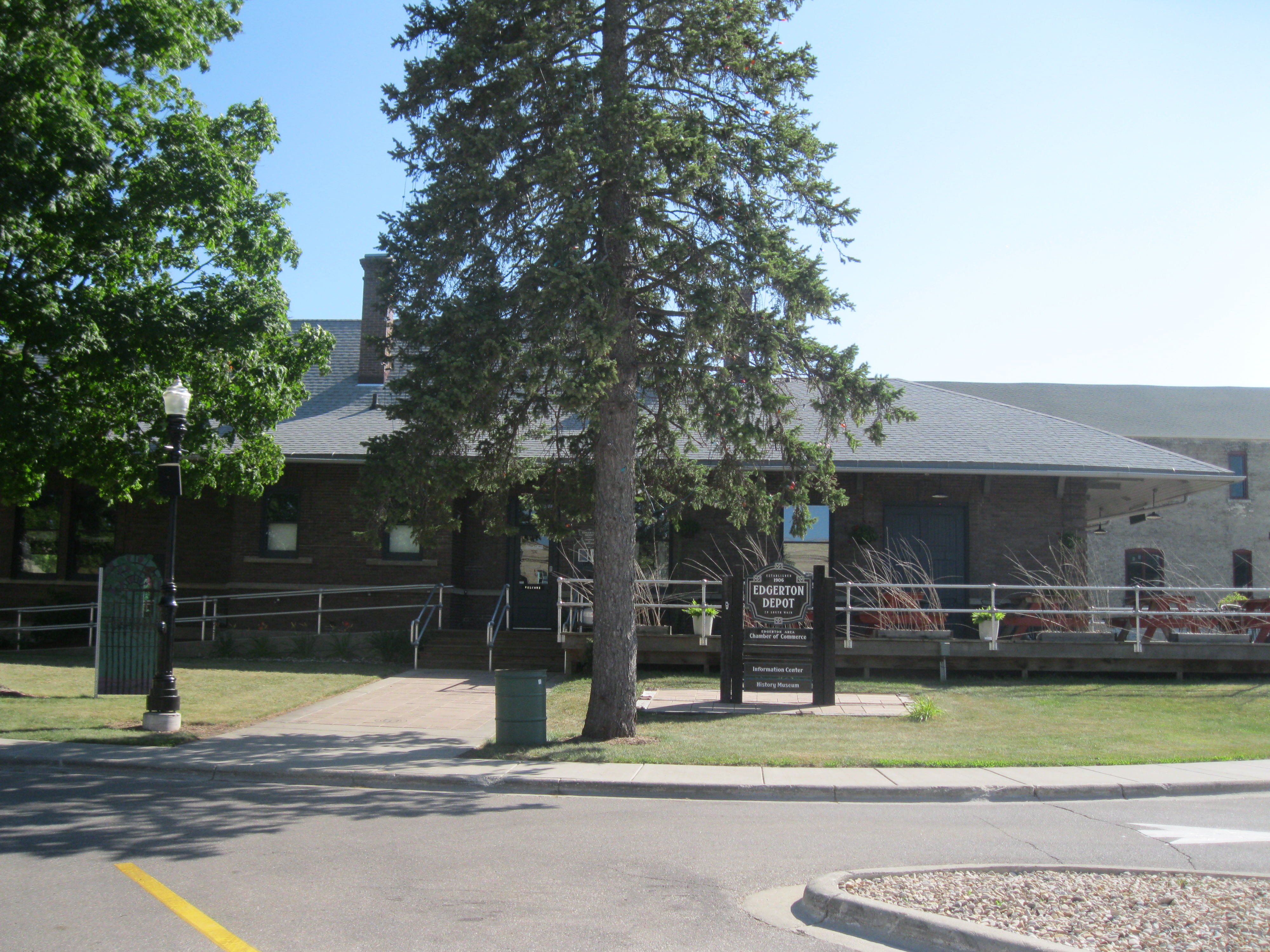 The north side of the Edgerton Depot in Edgerton, Wisconsin.